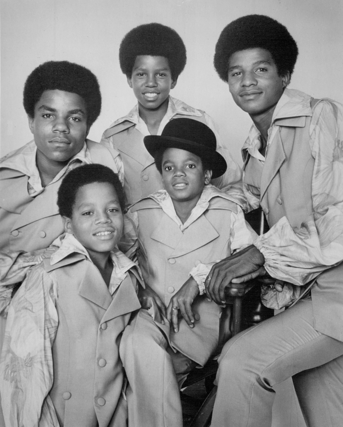 Photo of the Jackson 5 announcing their appearance on The Ed Sullivan Show.